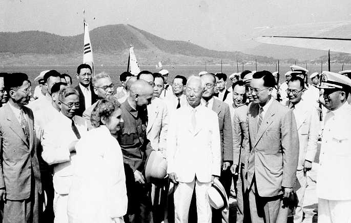 Chiang Kai-shek and the president of South Korea, Syngman Rhee, meet for a three-day meeting at Jinhae (South Korea) in August of 1949. Chiang Kai-shek had recently fled mainland China for Taiwan after Communist Chinese forces defeated his army (